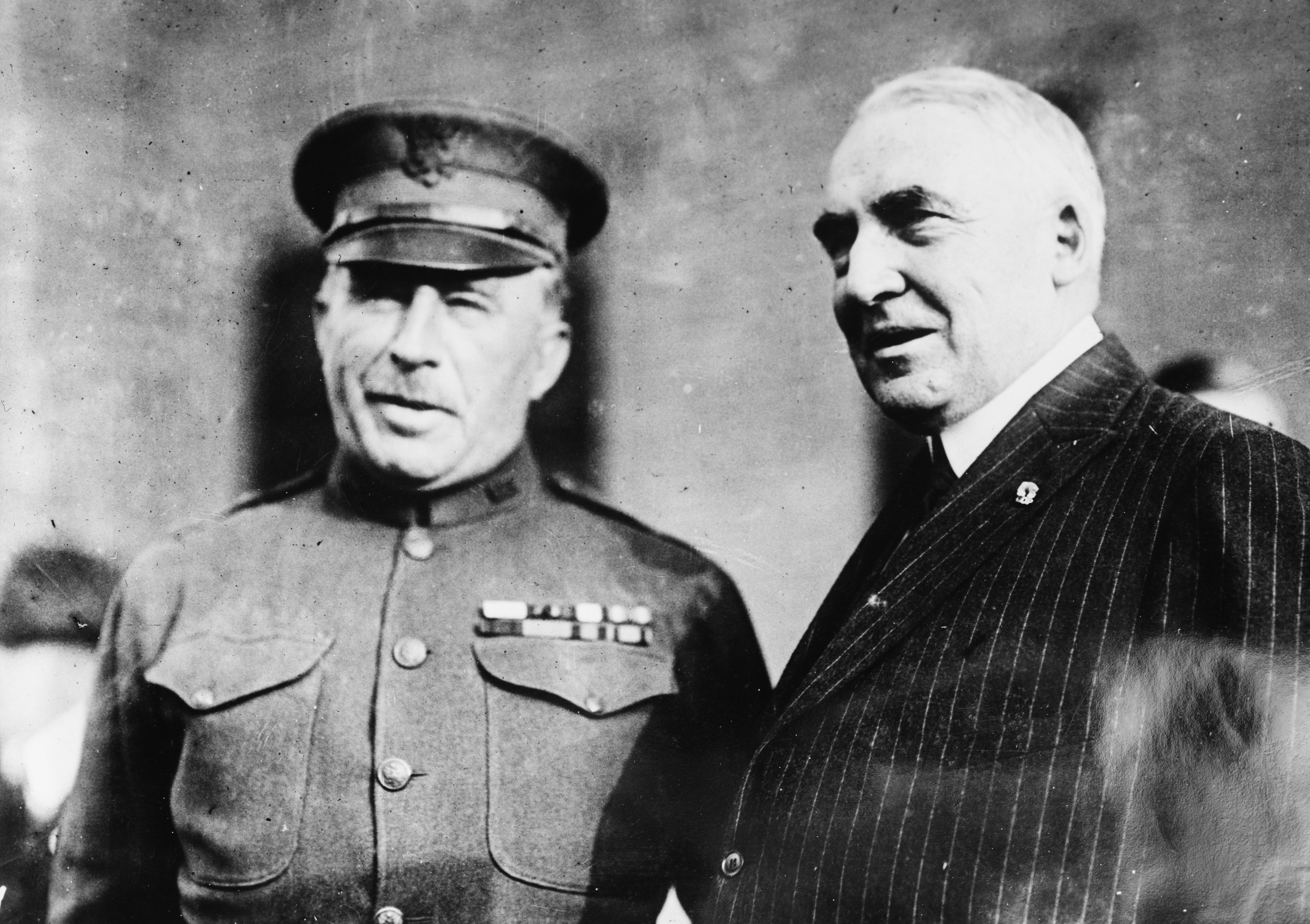 Title: Gen. Wood and Harding Abstract/medium: 1 negative : glass ; 5 x 7 in. or smaller.